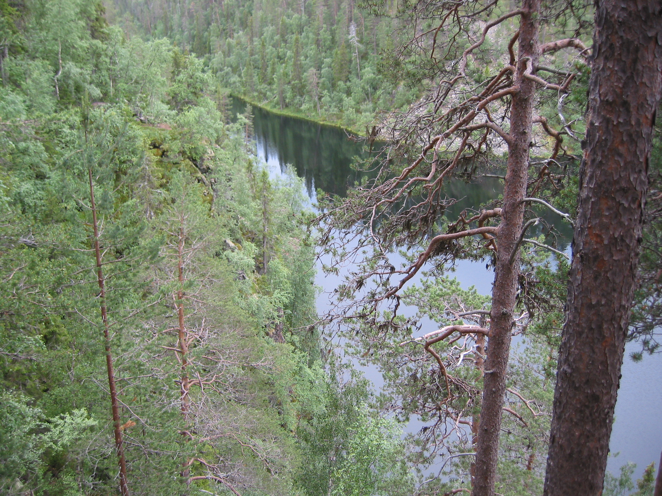 Pakasaivo lake in Muonio, Finland